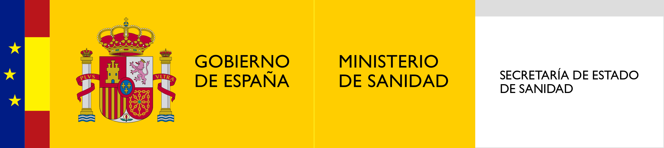 Logo of the Secretariat of State for Health of Spain